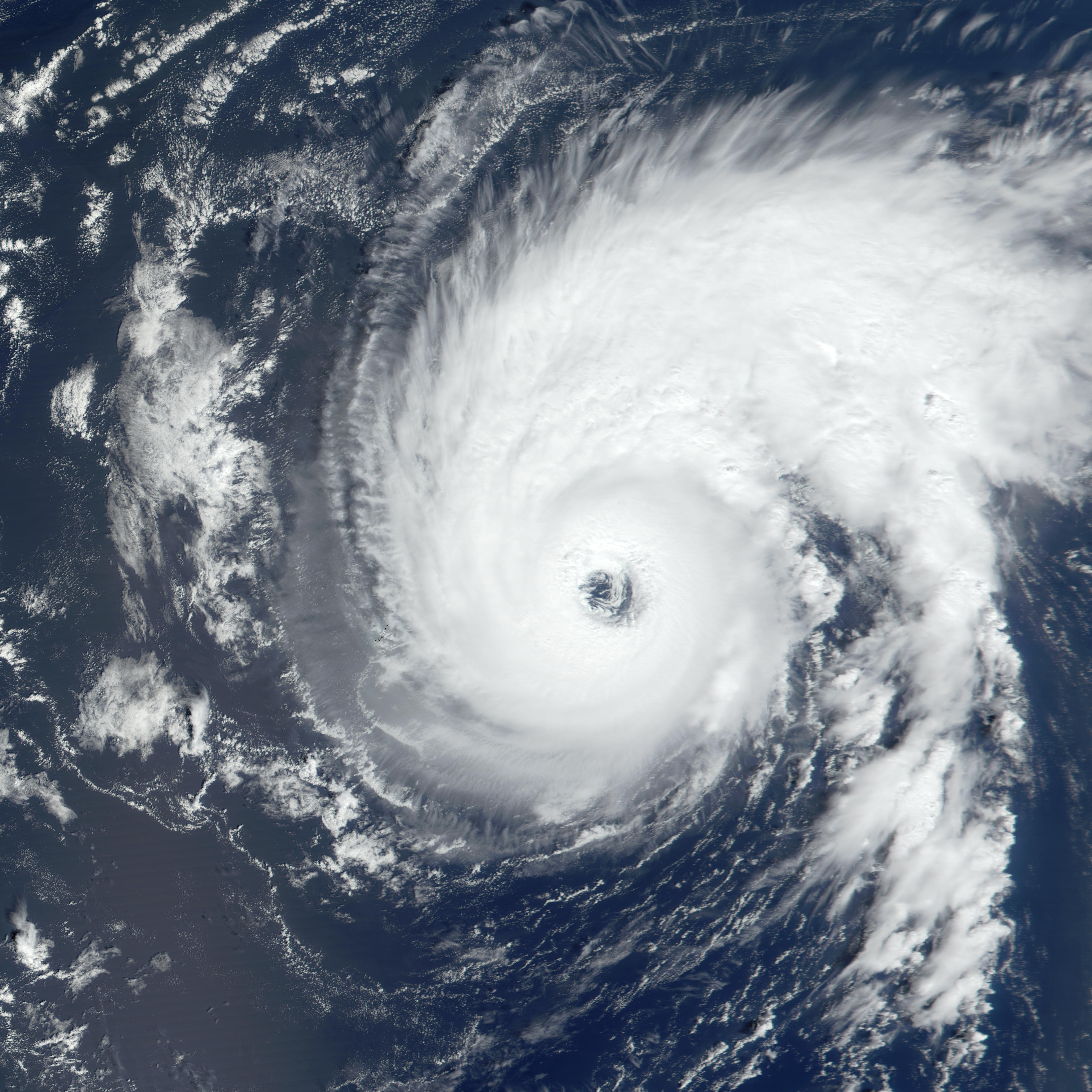 The first Atlantic hurricane of the 2001 season narrowly missed Bermuda yesterday (September 9) as it churned north-northwestward at a rate of 19 km per hour (12 miles per hour). Packing sustained winds of 195 km per hour (120 miles per hour), Hurricane Erin was located just east of Bermuda at the time NASA's Terra satellite acquired this image. The true-color image was produced using data from the Moderate-resolution Imaging Spectroradiometer (MODIS). The U.S. National Hurricane Center predicts that tonight the storm will shift to a more northerly path. The Center says there is still the possibility that Hurricane Erin could impact Canada, somewhere along the coast of Newfoundland, within three to four days. Hurricane Erin was upgraded from a tropical storm to hurricane status on September 8, and was listed as a Category 3 hurricane on September 10 on the Saffir-Simpson scale. The storm's hurricane-force winds extend outward in a 75-km (45-mile) radius from its center, with tropical storm force winds extending to 280 km (175 miles) from center.